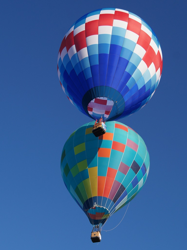 Nicola Scaife (AUS) and Kellie Keller (USA, upper) - Women's World Naleczow 2018